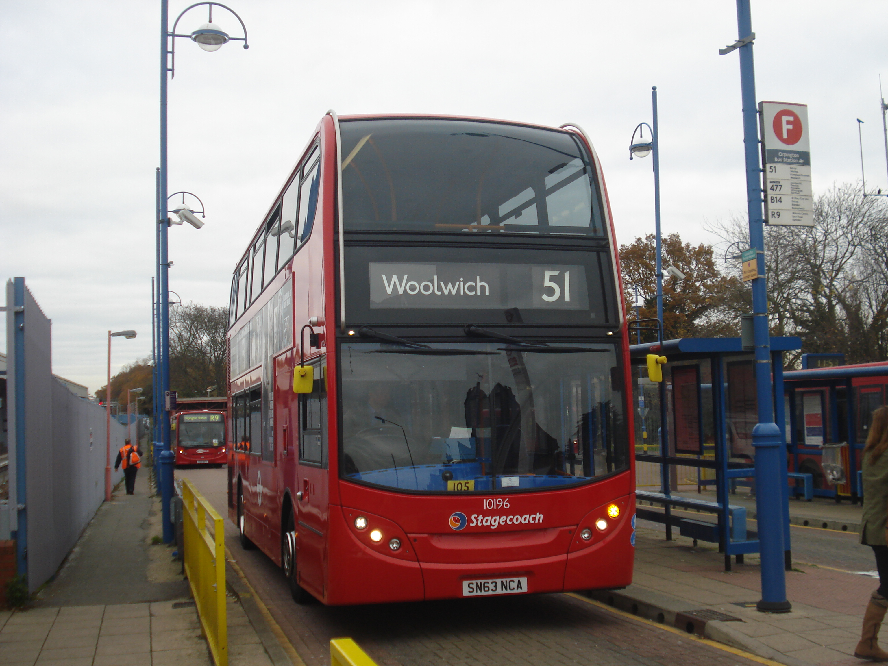 A route 51 bus at Orpington bus station